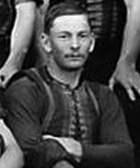 Photo of Port Adelaide player Harry "Tick" Phillips from Port Adelaide's 1897 premiership team photo.